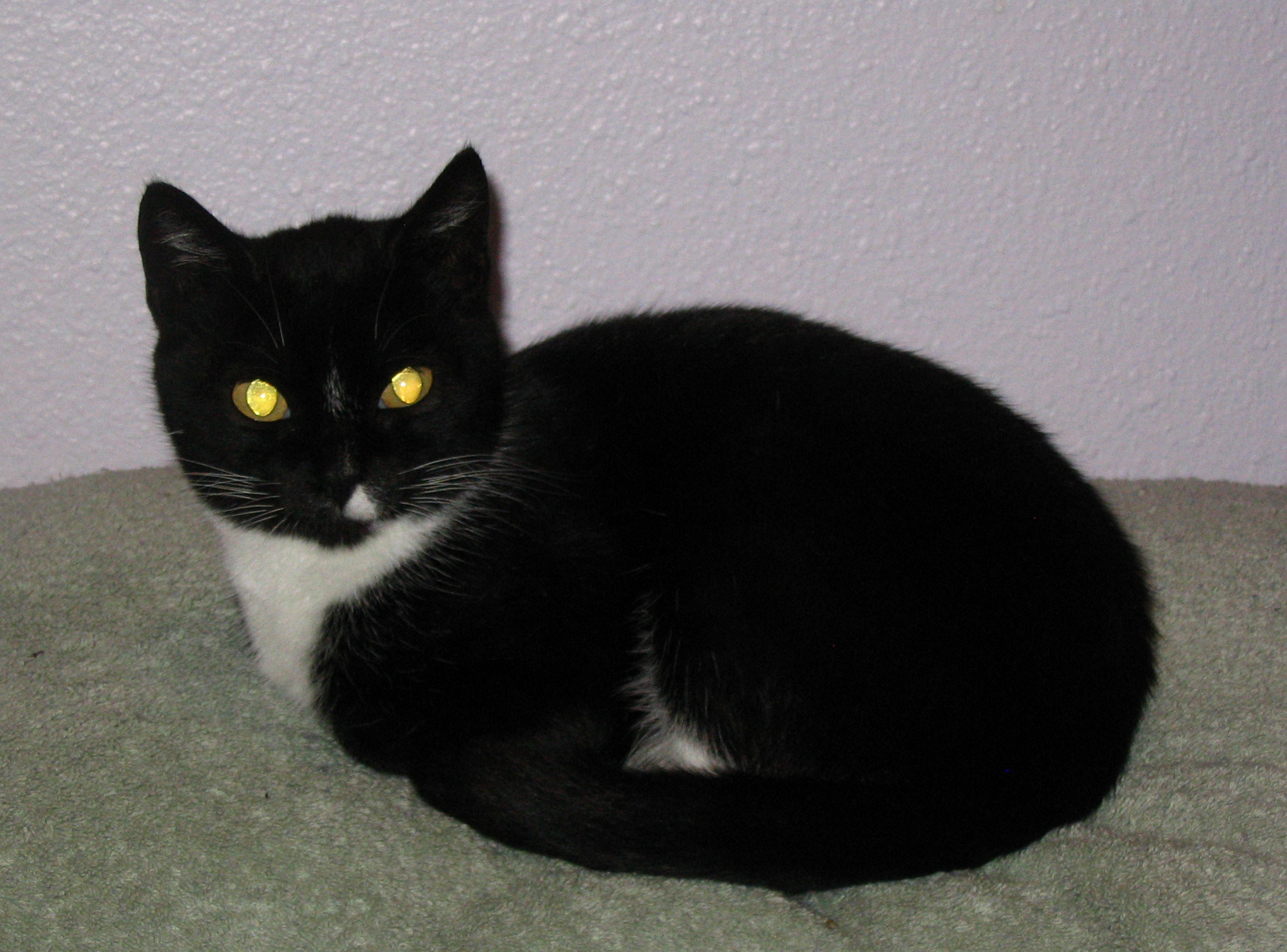 Black and white housecat curled up on a blanket. Looking at the camera and exhibiting yellow eyeshine. Same cat as in Image:Mother_cat_lying_with_tan_kitten.jpg.